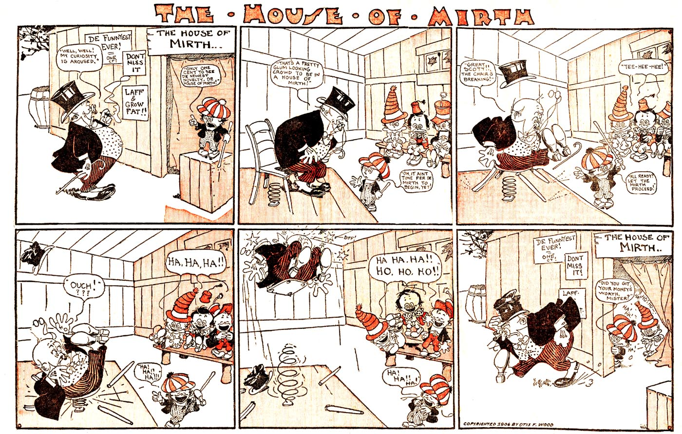 A man pays to attend the "House of Mirth", an alleged entertainment venue run by children. Instead of being entertained, he is physically assaulted - to the amusement of the children. The text in this image should be transcribed and included in the description on this page. See also Inscription . The Google OCR tool may be of use in transcribing images.